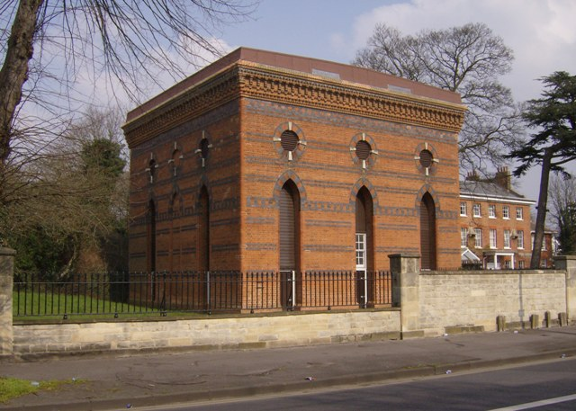 Bath Road reservoir site This is the pumping house for the reservoir, the embankments of which are behind the tree. They are no longer used, and there are plans for houses on the site, creating much controversy as there is a little nature colony grown up in there.